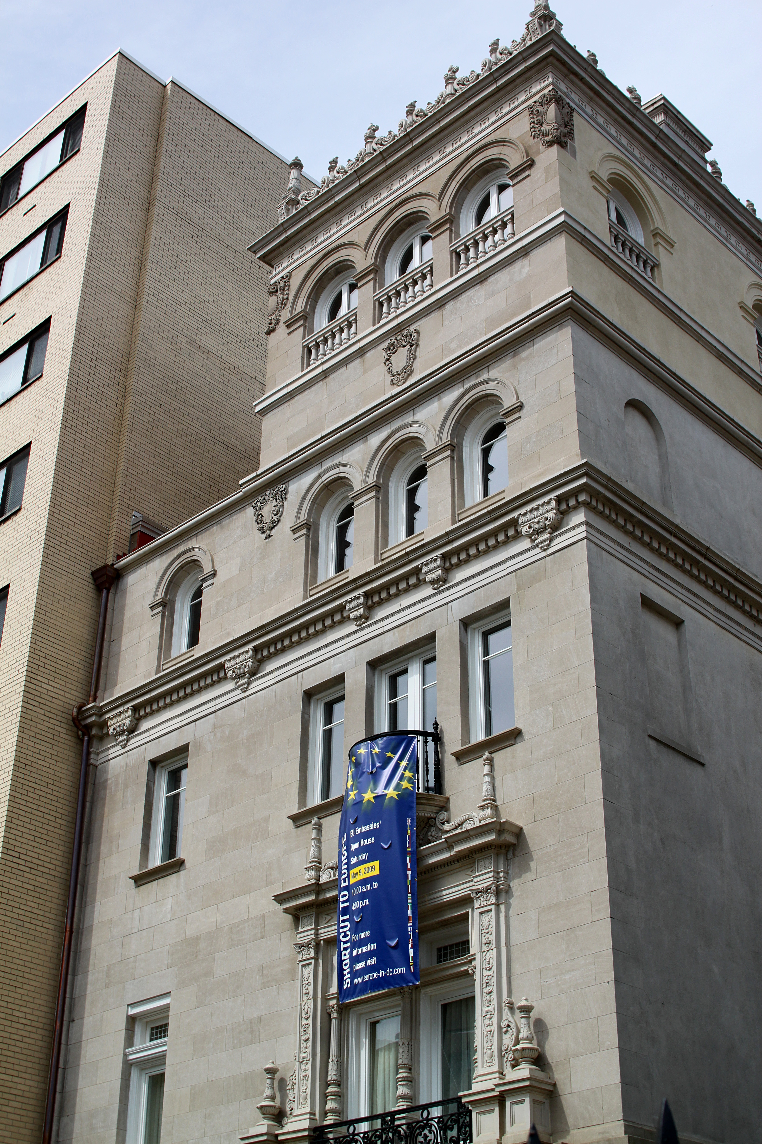 The Embassy of Lithuania (1908, George Oakley Totten, Jr.) at 2622 16th Street NW, in Washington, DC.